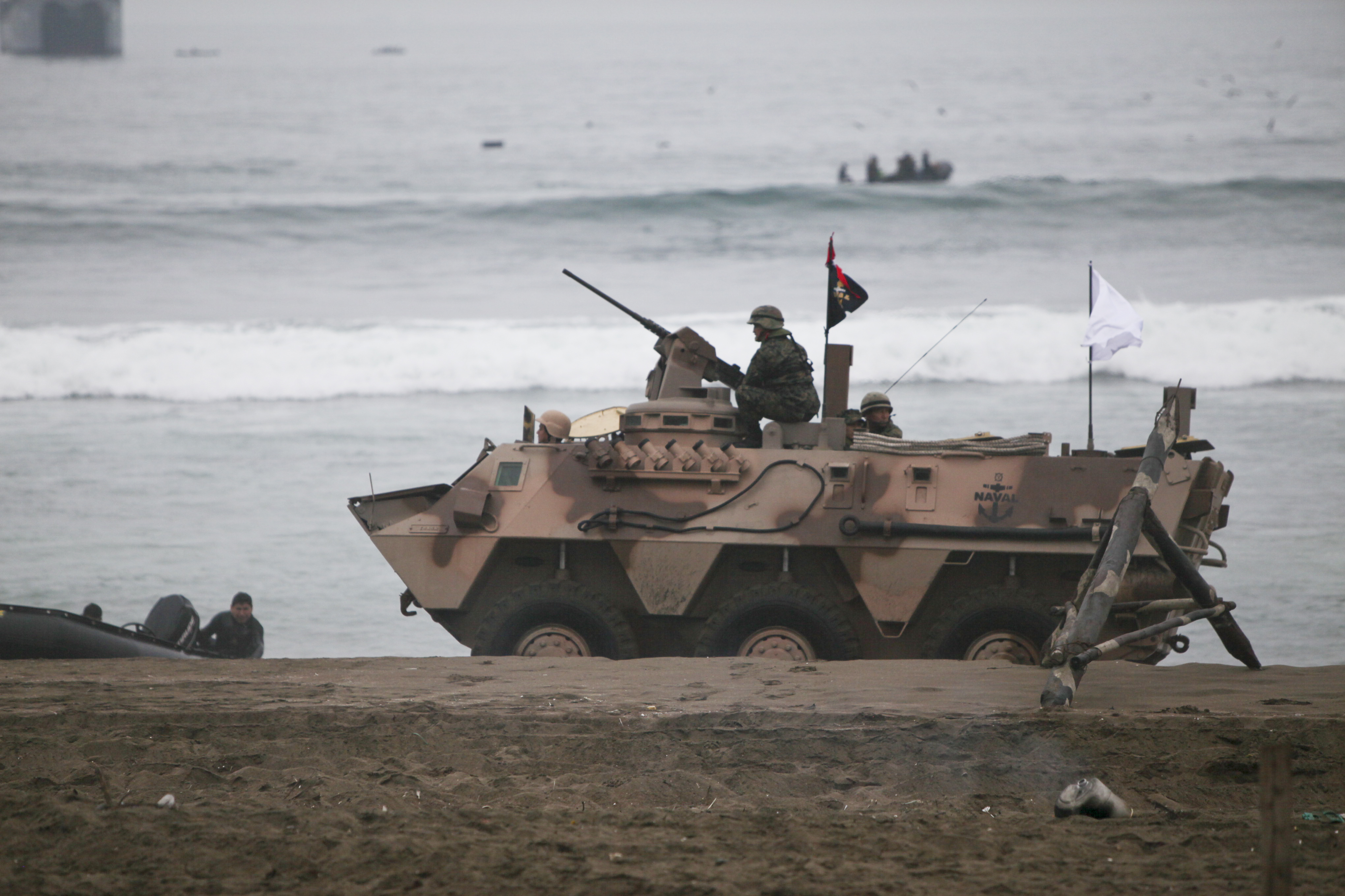 Peruvian Marines storm a beach during multinational amphibious beach assault training exercise in Ancon, Peru on July 19, 2010 The unit was deployed in support of operation Partnership of the Americas/Southern Exchange, a combined amphibious exercise designed to enhance cooperative partnerships with maritime forces from Argentina, Mexico, Peru, Brazil, Uruguay and Colombia.